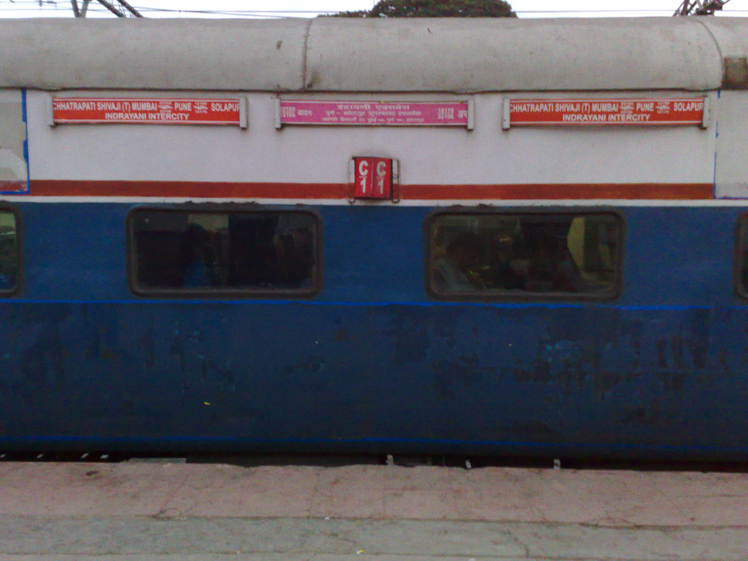 22106 Indrayani Express - AC Chair Coach